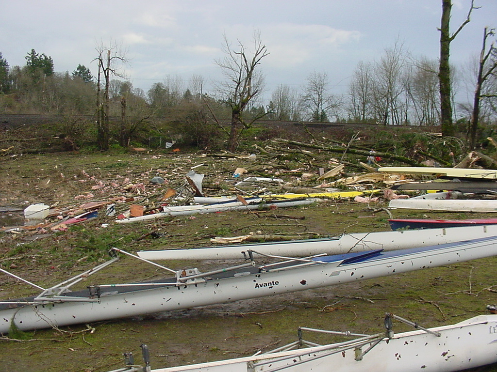 Damage to a Marina in Vancouver as a result of an EF1 tornado